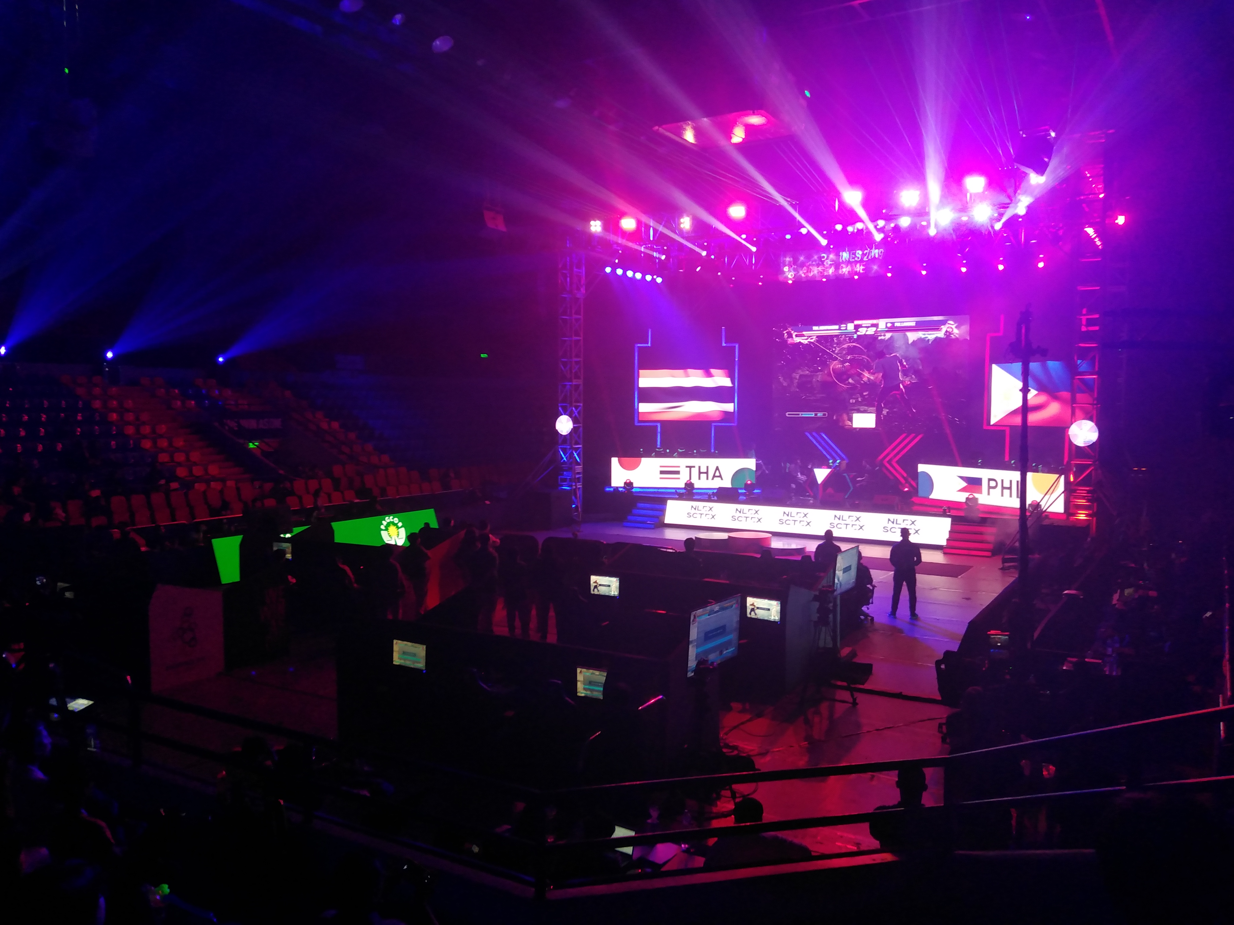 Nopparut "Book" Hempamorn of Thailand vs Alexandre “AK” Lavarez of the Philippines in a Upper Bracket Match of the Tekken 7 event at the 2019 Southeast Asian Games.